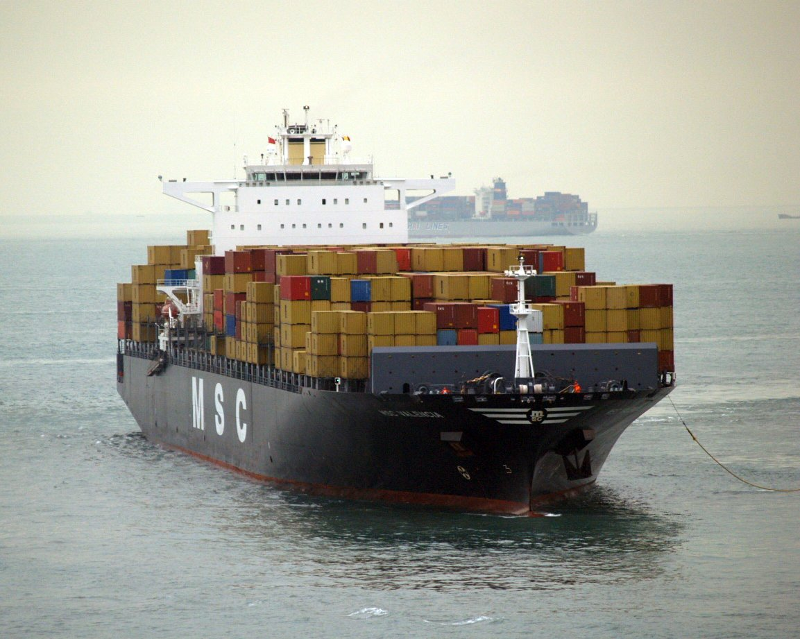 IMO number : 9301471 Name of ship : MSC VALENCIA Call Sign : A8IF4 Gross tonnage : 89941 Type of ship : Container Ship Year of build : 2006 Flag : Liberia Status of ship : In Service